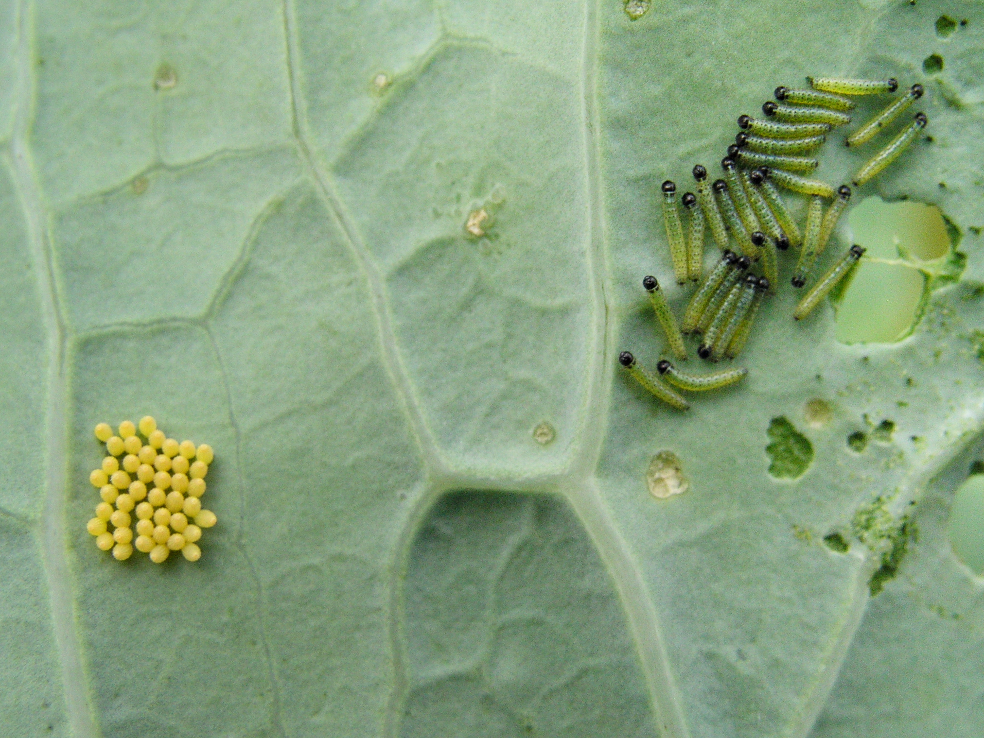 Caterpillars and eggs of Large White butterfly Eggs and just hatched larvae of Pieris brassicae (also known as the Cabbage White) on Sea Kale (Crambe maritima) in a shingle environment next to the Millennium Seed Bank building at Wakehurst Place.